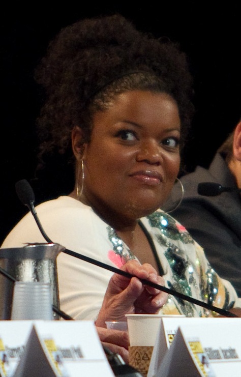 Yvette Nicole Brown at a San Diego Comic-Con panel for Community in July 2010.